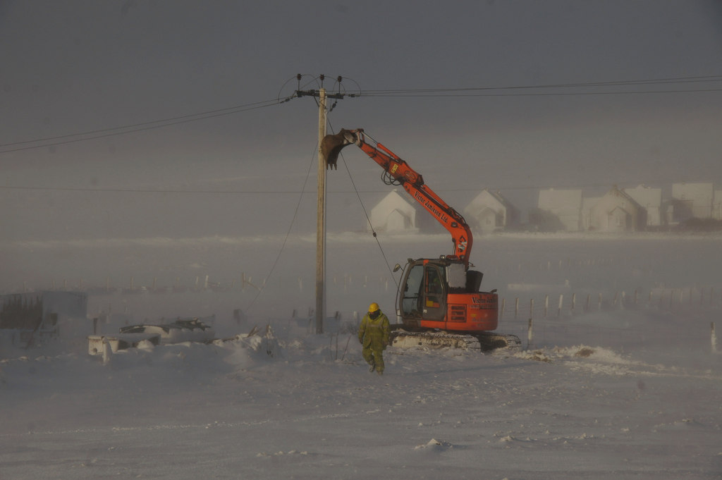 repairs to electricity Baltasound